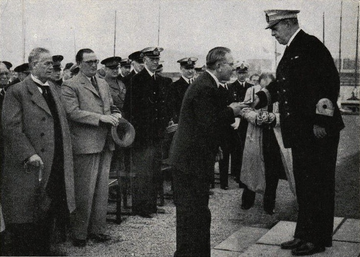 At the inauguration of Öresund's Voluntary Motorboat Flotilla's station in Limhamn: The Chief of the Navy, Admiral Fabian Tamm presents the Swedish Navy's gold medal to the donor, director Einar Hansen. Öresund's Voluntary Motorboat Flotilla's station in Limhamn, the first of its kind in the country, is inauguratied by the Chief of the Navy. This will create an organization for preparatory naval education and training of young people who will devote themselves to the merchant navy.